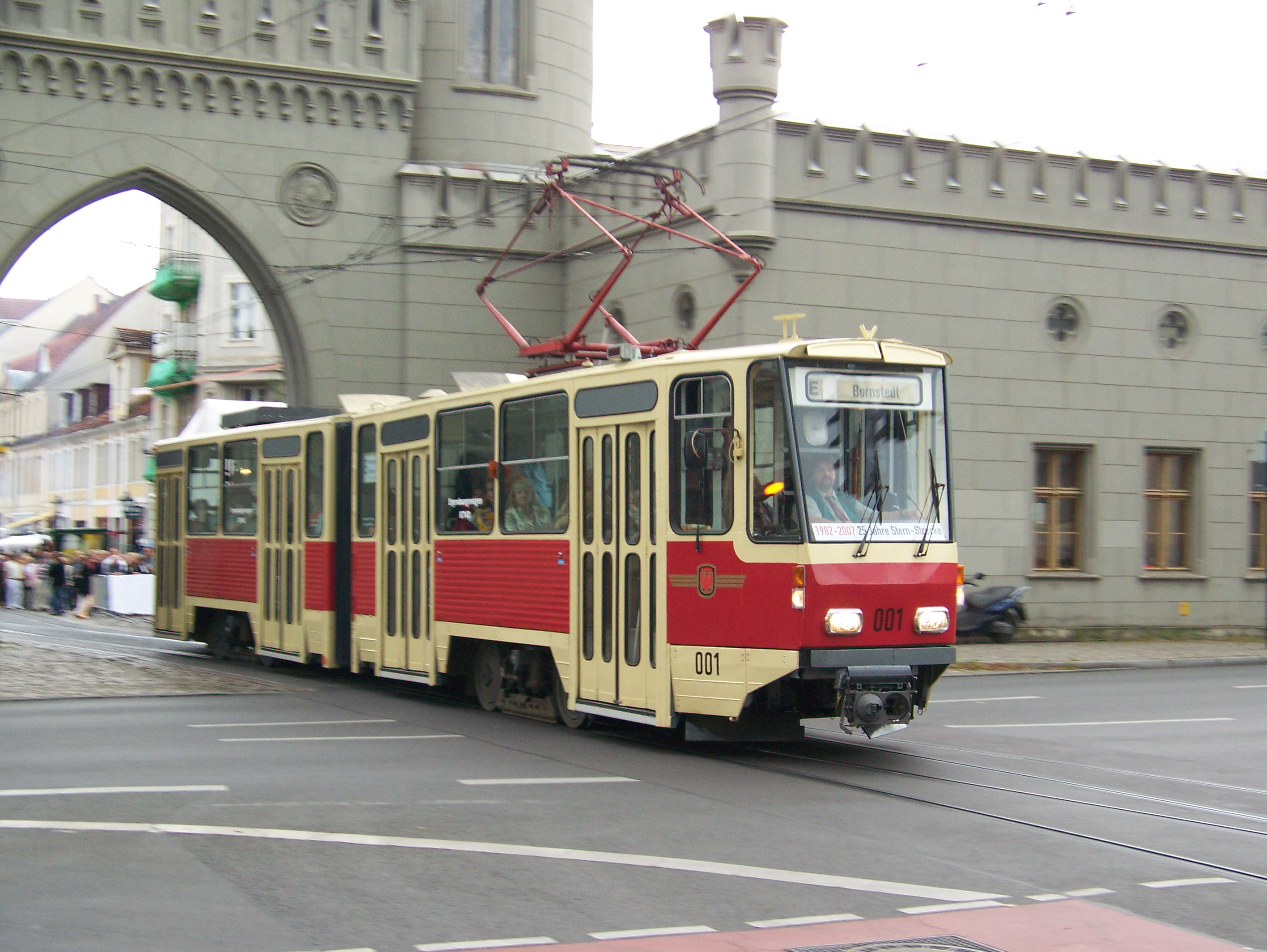 Tatra KT4D Prototype near the Nauen Gate in Potsdam